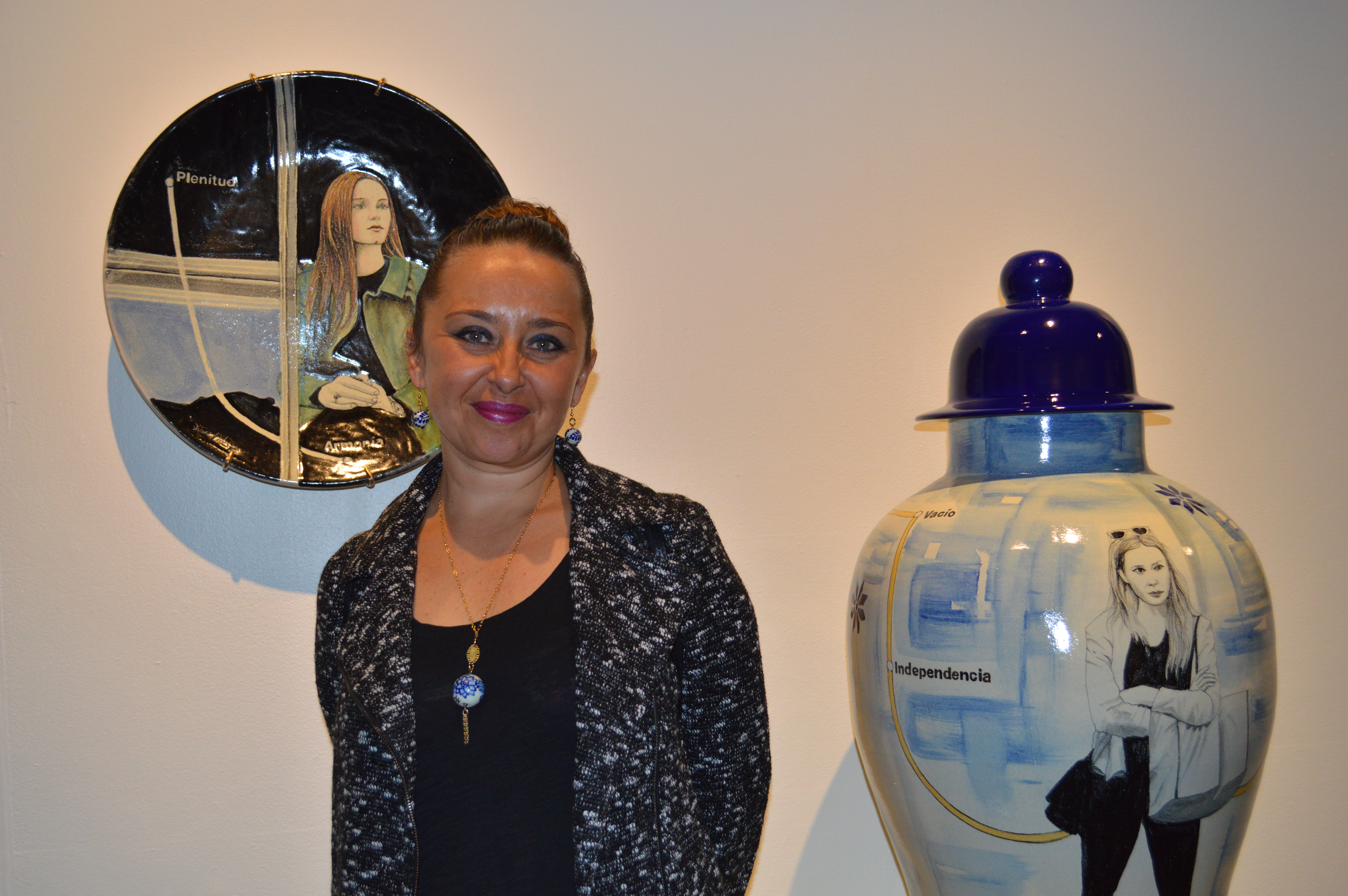 Diana Salazar with pieces in Talavera ceramic at the Museo de Arte Popular in Mexico City